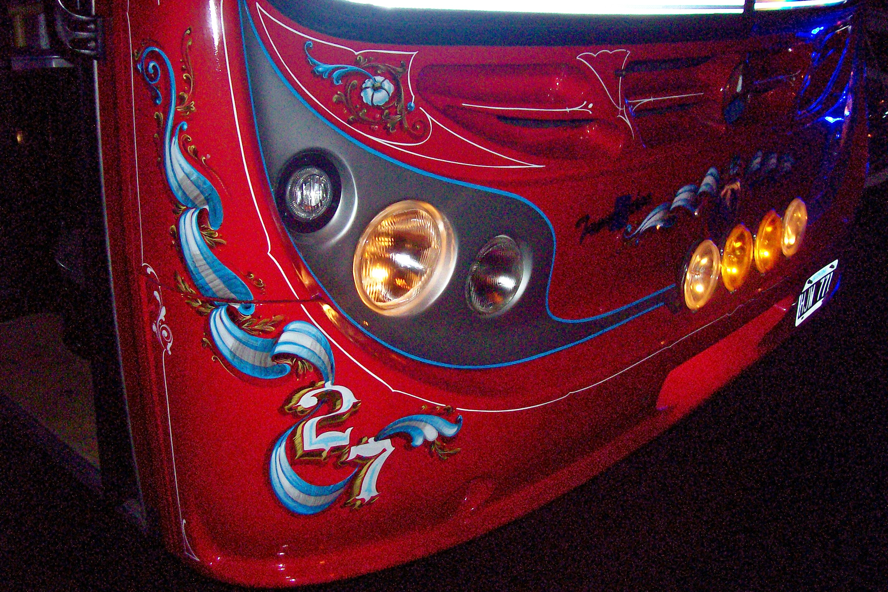 Metalpar Tronador bus (reg. HJM 771 or HJW 771, #27) with Mercedes-Benz chassis in Buenos Aires, Argentina. Colectivo.